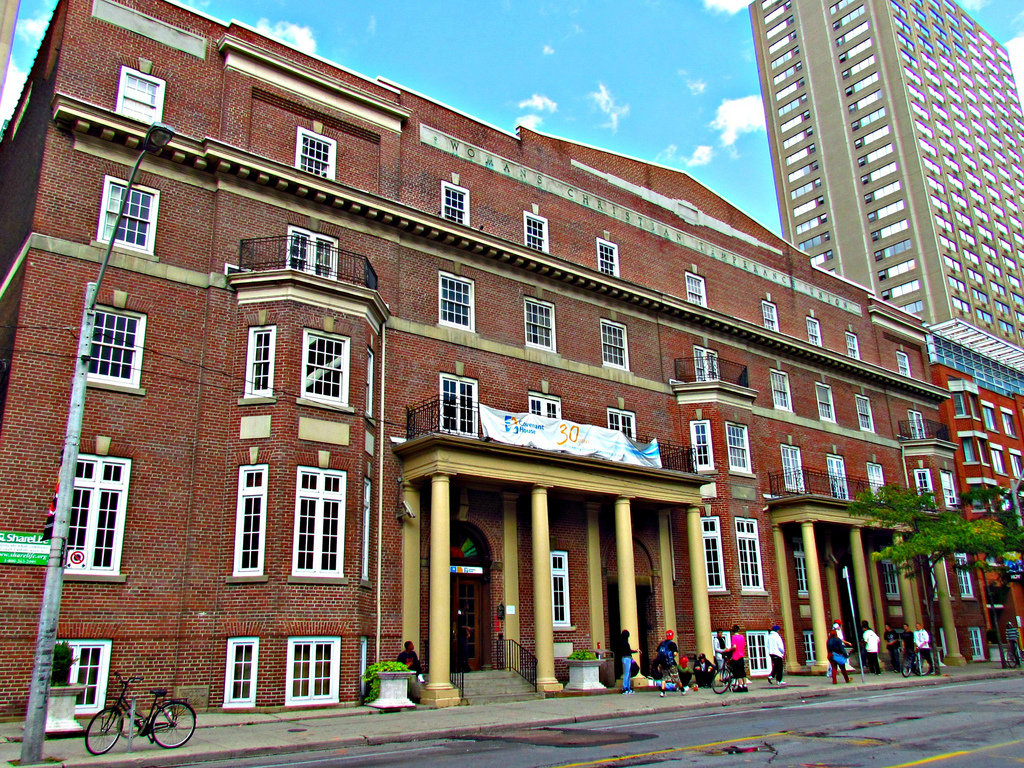 Exterior view of Covenant House Toronto at 20 Gerrard St. East, Toronto, ON, M5B 2P3. The building was originally built for the Woman's Christian Temperance Union.